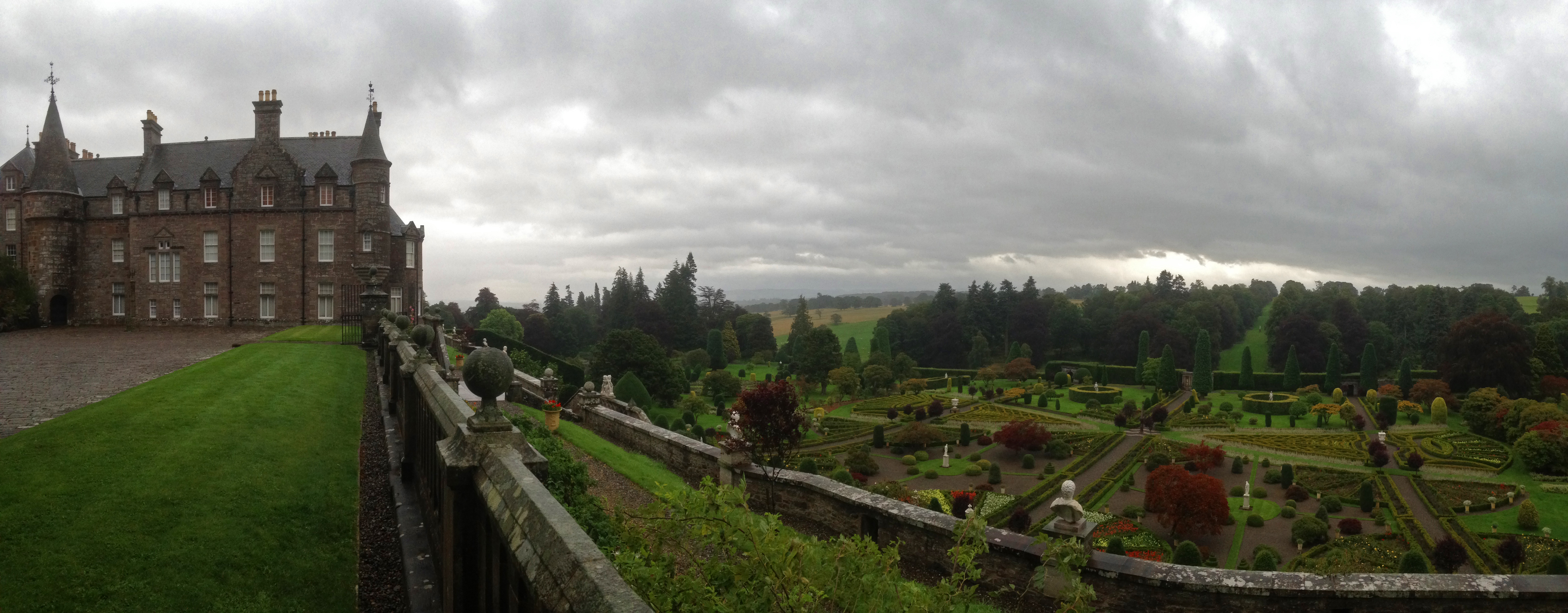 Drummond Castle panoramic view front the front pavement